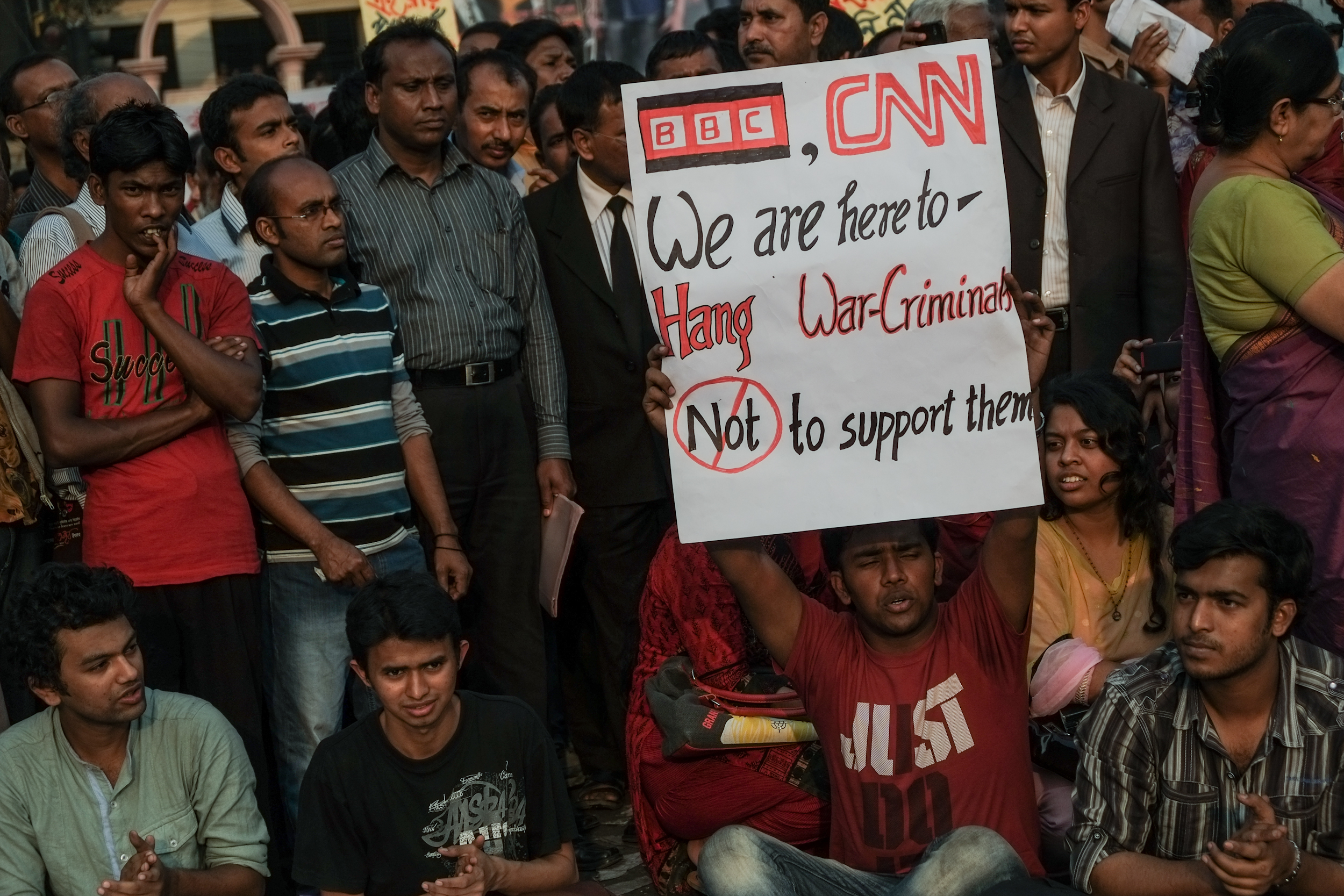 Uprising of people at Shahbag, Dhaka, Bangladesh demanding death penalty of Kader Molla and all other war criminals who are now being tried before the International Crimes Tribunal Bangladesh for the serious crimes they have committed during the Liberation War of Bangladesh in 1971. Perpetrators of war crimes, genocide and crimes against humanity have NO place in Bangladesh. This is public opinion. BACKGROUND: On 5 February 2013, International Crimes Tribunal-2 delivered judgment against Kader Molla, who was accused of rape of minor and at least 350 murders. Tried for his crimes against humanity, his crimes were proven beyond reasonable doubt, according to the judgment. However, the Tribunal comprising of Mr Shahinur Islam, Obaidul Hasan Shahin and Mojibur Rahman awarded Kader Molla life sentence, instead of death penalty which the accused deserved. People, rejecting this lenient sentence, has risen, in Dhaka and other cities in Bangladesh.